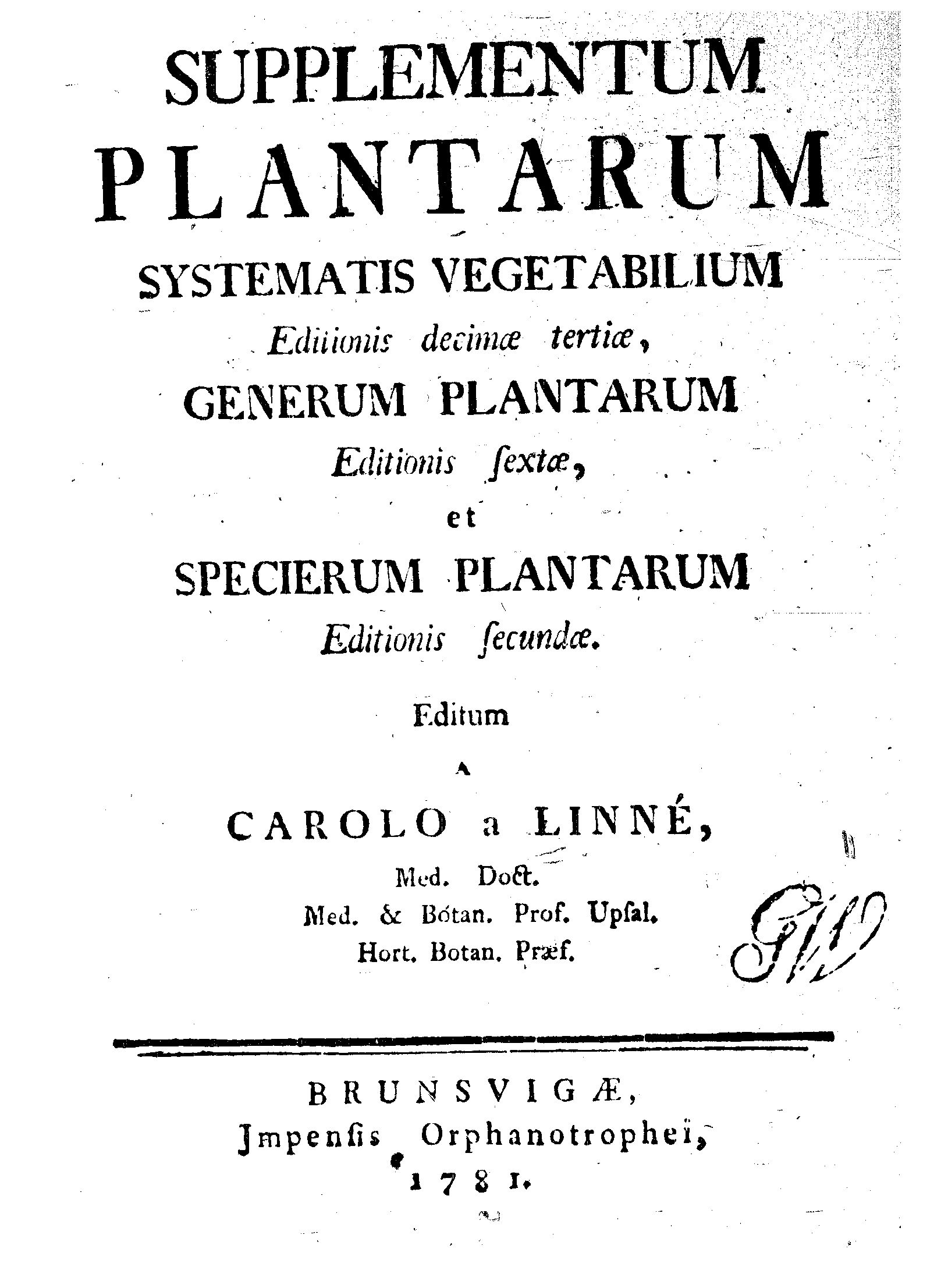 This is the cover page of "Supplementum Plantarum Systematis Vegetabilium" by Carolus Linnaeus the Younger.